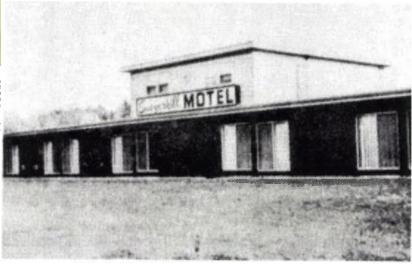 Sawyerkill Motel at Saugerties, NC, base of the Operation Atlantis (1968)